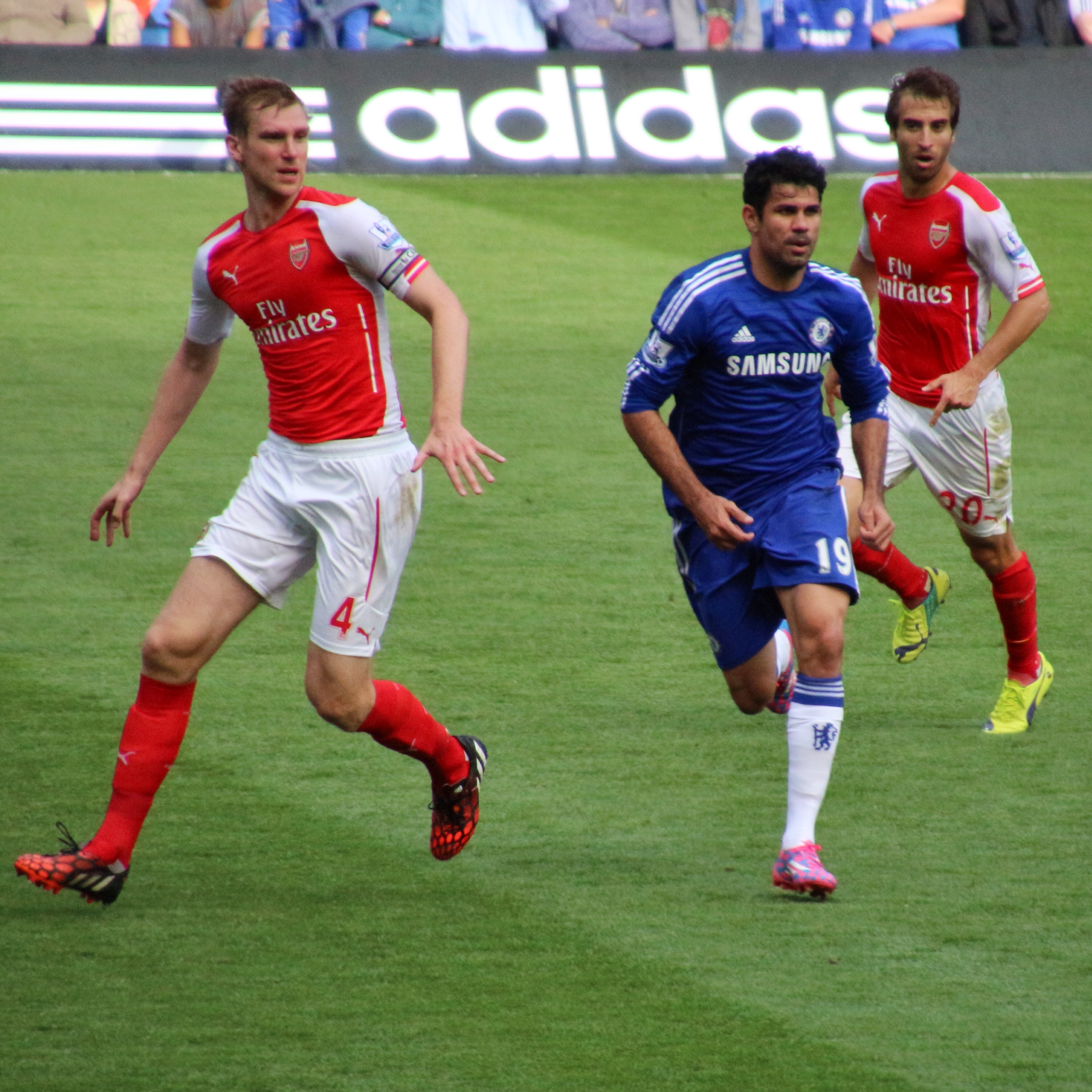 Premier League match between Chelsea and Arsenal at Stamford Bridge on 5 October 2014.